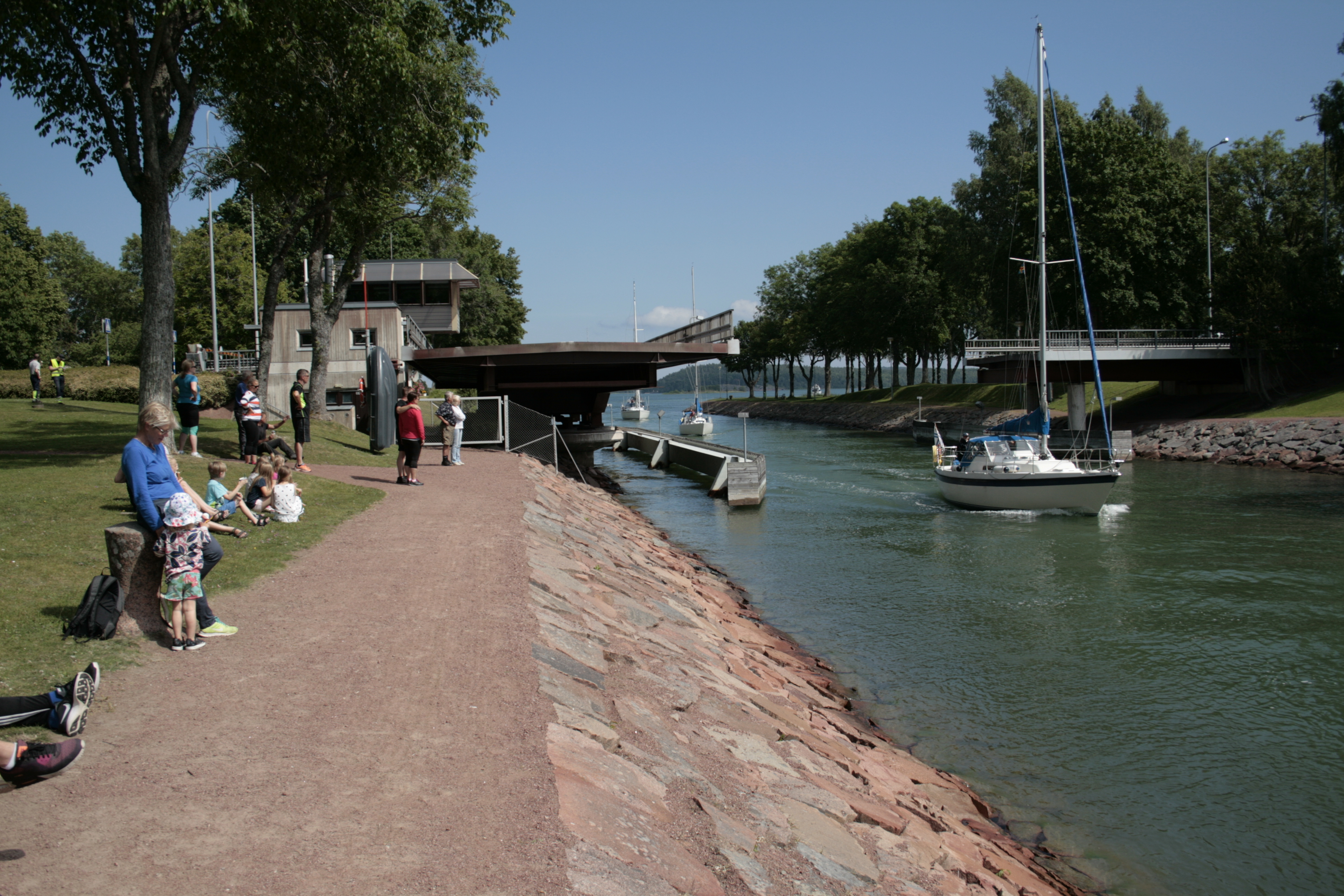 The Bridge on Canal of Lemström has opened, 2017